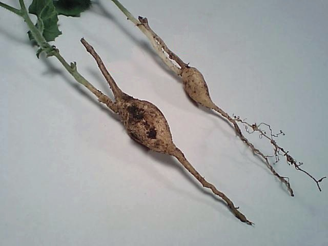 Vegetative propagation of Trichosanthes Cucumeroides